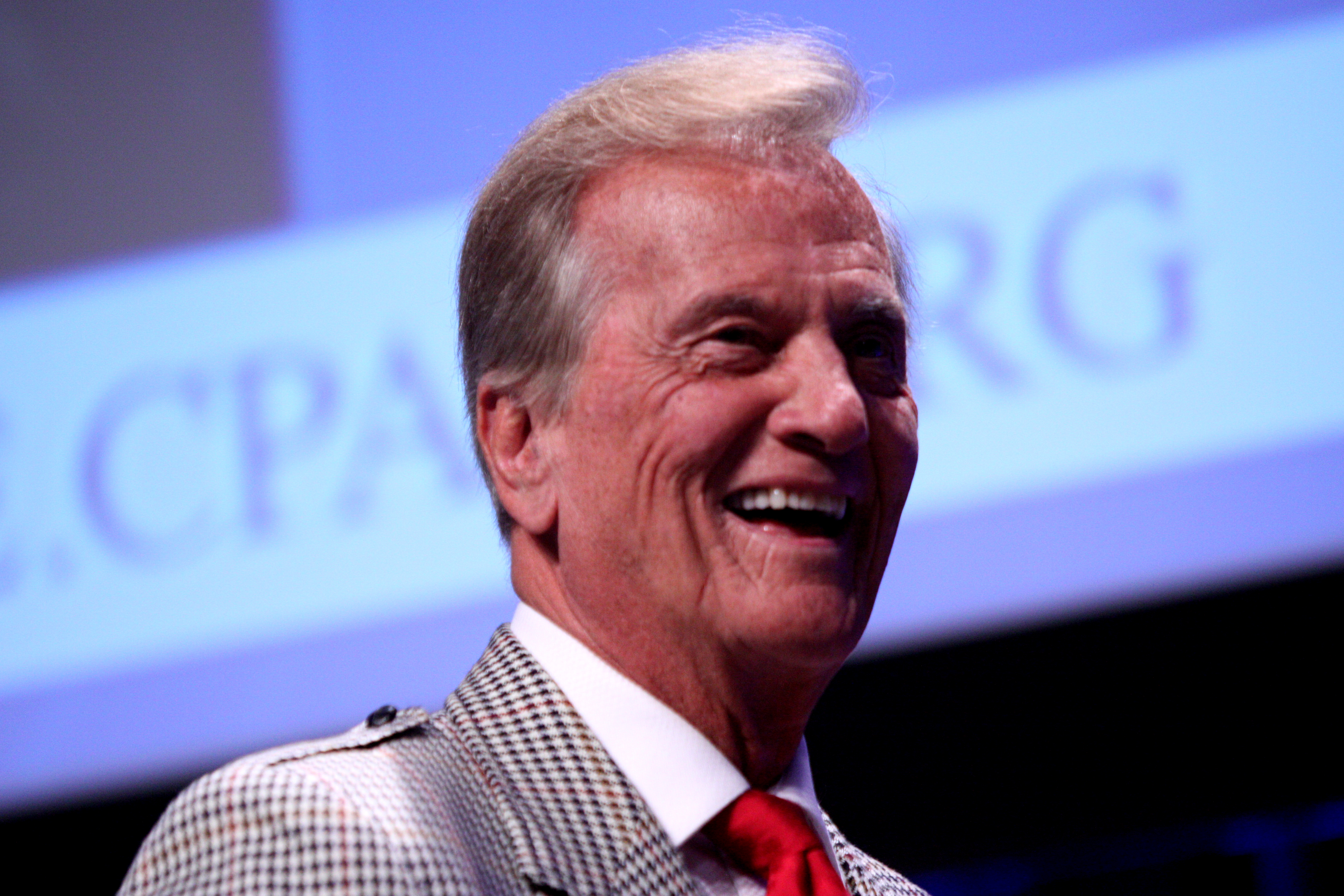 Television host Pat Boone speaking at CPAC 2011 in Washington, D.C.